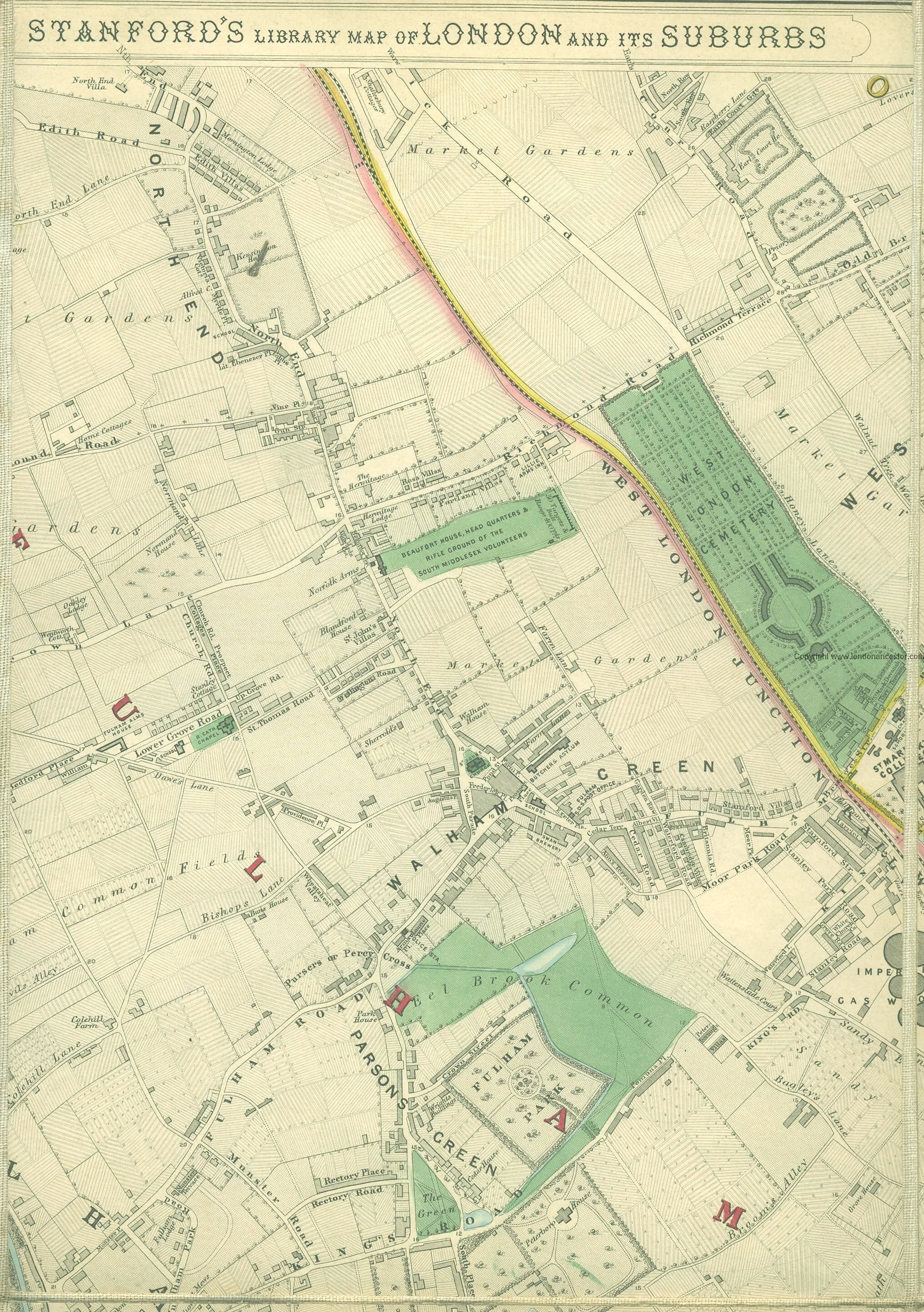 Stanford's Library map of Fulham, c. 1860